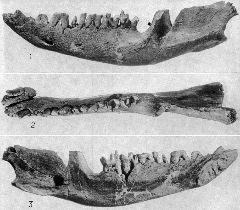 Type specimen of Eodephis browni